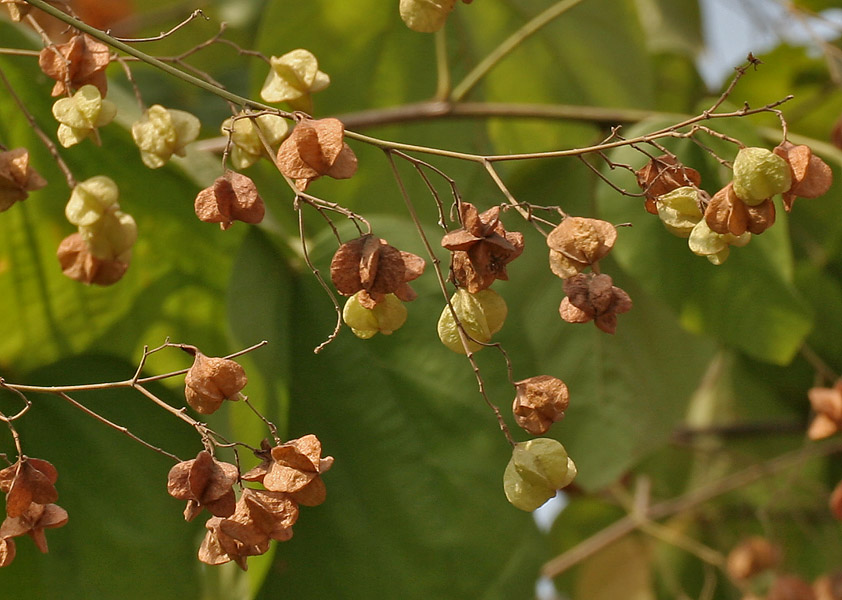 Bola or Tree Antigonon Kleinhovia hospita in Hyderabad, India.